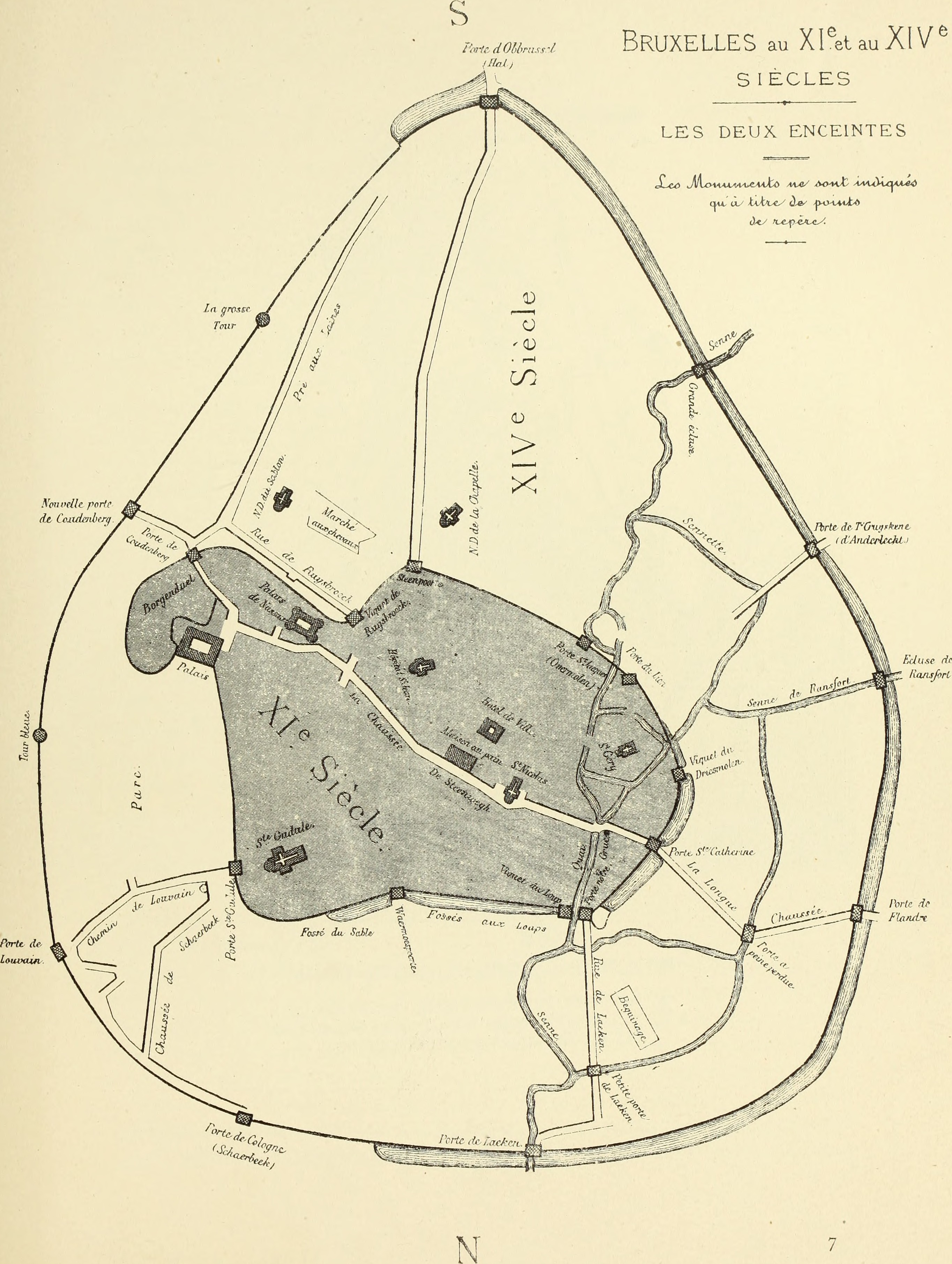 Title: Bruxelles à travers les âges Year: 1884 (1880s) Authors: Hymans, Louis Salomon, 1829-1884 Hymans, Henri, 1836-1912 Hymans, Paul, 1865-1941 Subjects: Publisher: Bruxelles : Bruylant-Christophe Text Appearing Before Image: Tour et entrée principale de léglise de Saint-Géry, en venant des Riches-Claires.Dessin de Puttaert daprès loriginal de P. Vitzthumb. ■— 26 nivôse an vu. (Cabinet des estampes de la Bibliothèque royale.) Les deux vues de léglise de Saint-Géry ne sont évidemment pas celles de la construction primitive, qui ne fut quune pauvrechapelle couverte en chaume. Elles représentent les ruines de léglise construite au temps de Charles-Quint, dont il seradonné une vue intérieure dans le chapitre VI, consacré aux édifices religieux de la capitale. de la Bibliothèque de Bourgogne, dont M. Ruelens a fait lacquisition en Hollandeen 1866. Le Bruxelles du xive siècle, comme le Bruxelles daujourdhui, a la forme dunepoire dont la tige est à la porte de Hal, et qui se trouve assise sur la ligne des boule-vards depuis la porte de Louvain jusquà la porte de Flandre. Le Bruxelles primitif (1) Almanach de 1682. Text Appearing After Image: '